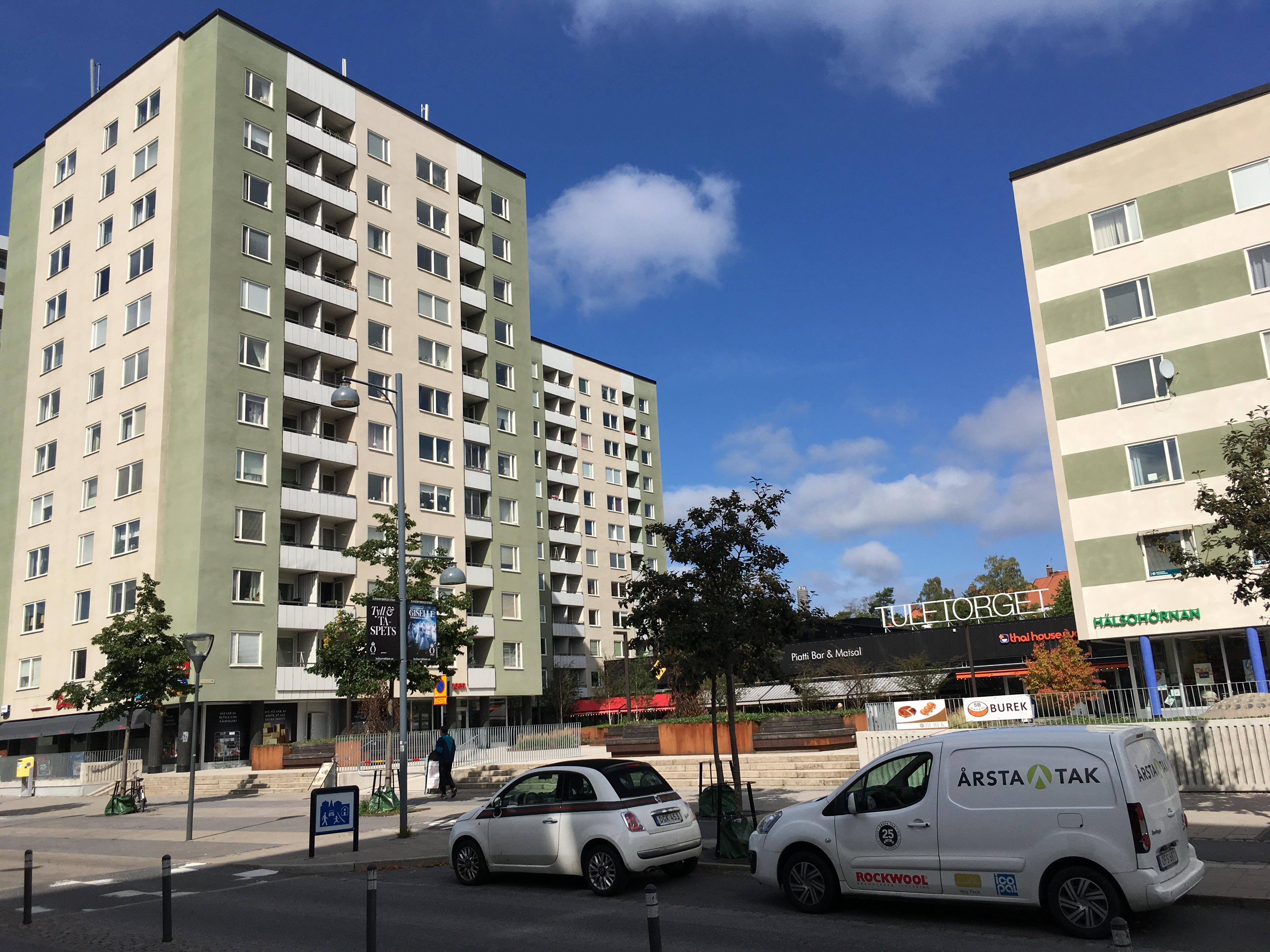 Tuletorget (Tule-square) in Sundbyberg, Sweden years 2019